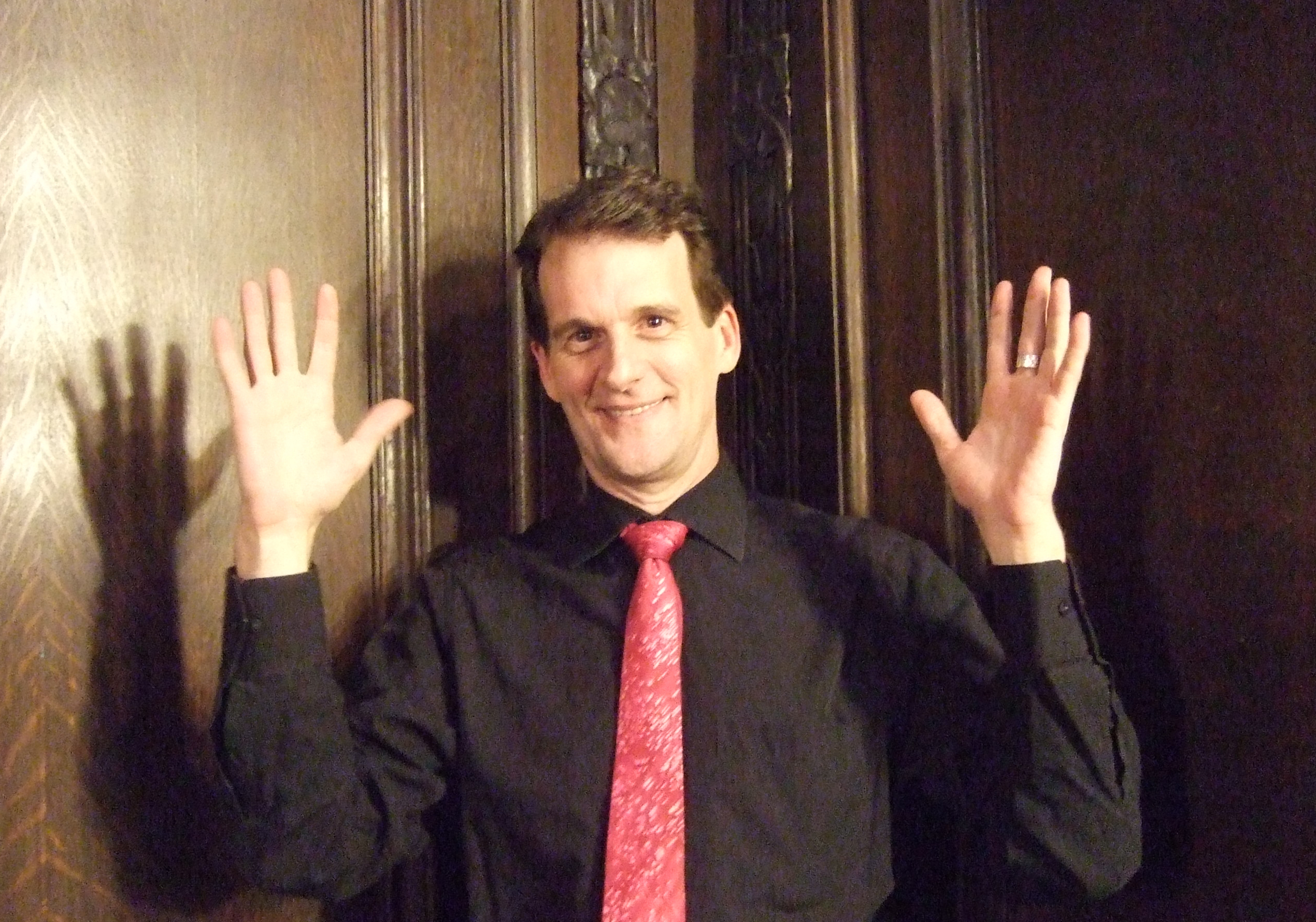 Signer James Rowe signs applause at the December 7, 2014 Anna Crusis Women's Choir concert at First Unitarian Church, 2125 Chestnut St., Phila. PA.